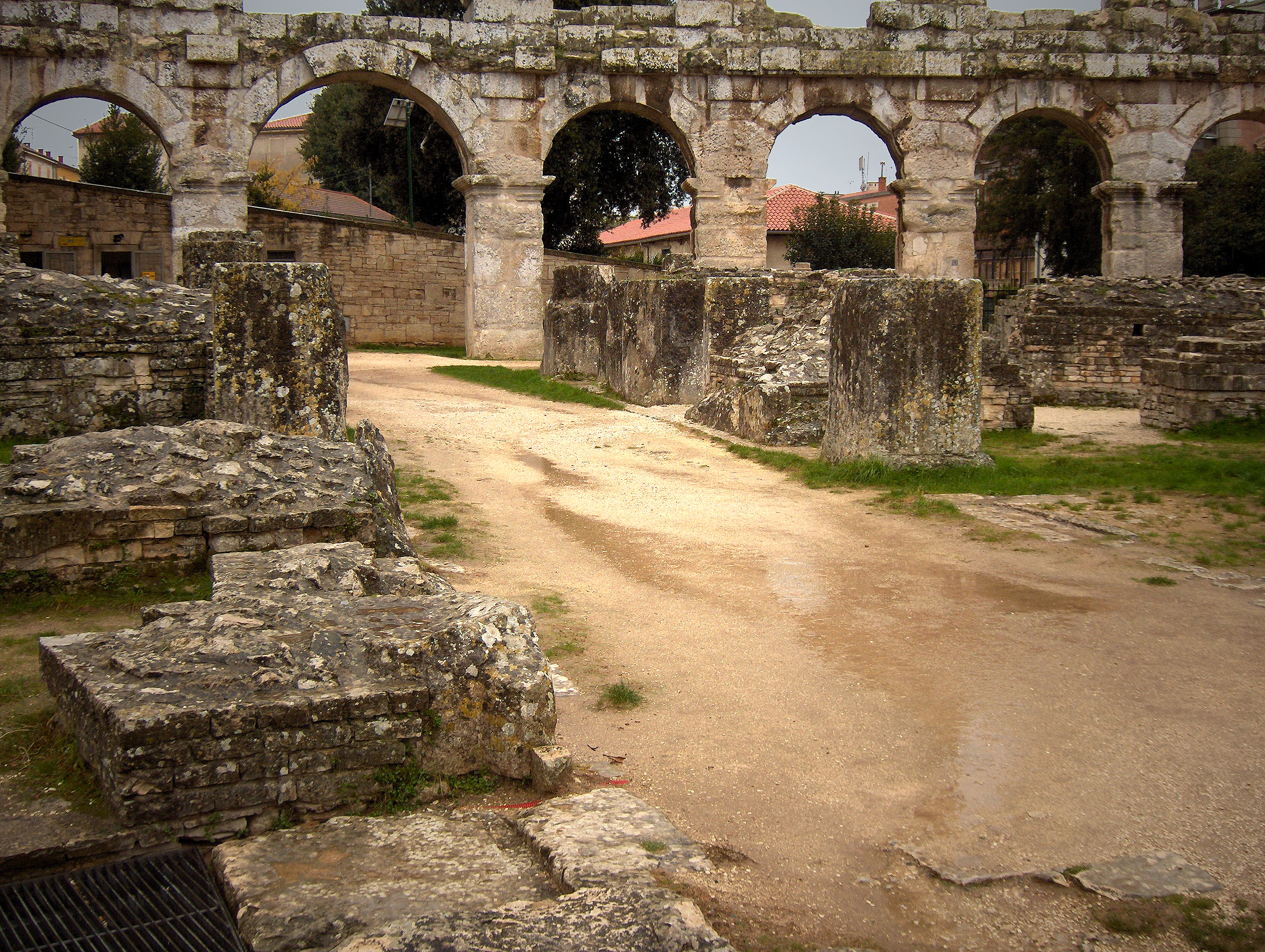 The Ancient Roman amphitheatre in Pula, Istria region (Croatia).